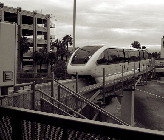 I was all psyched to ride the Vegas monorail, but between you and me, it was a bit of a dissapointment.